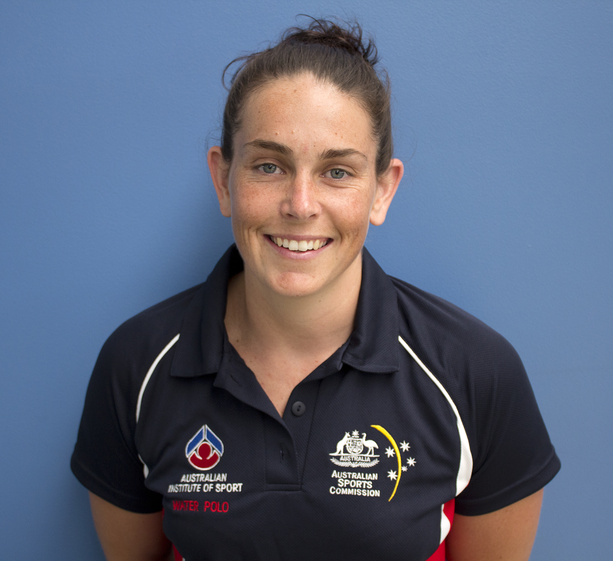 A portrait of Alicia McCormack Australian women's national water polo player.